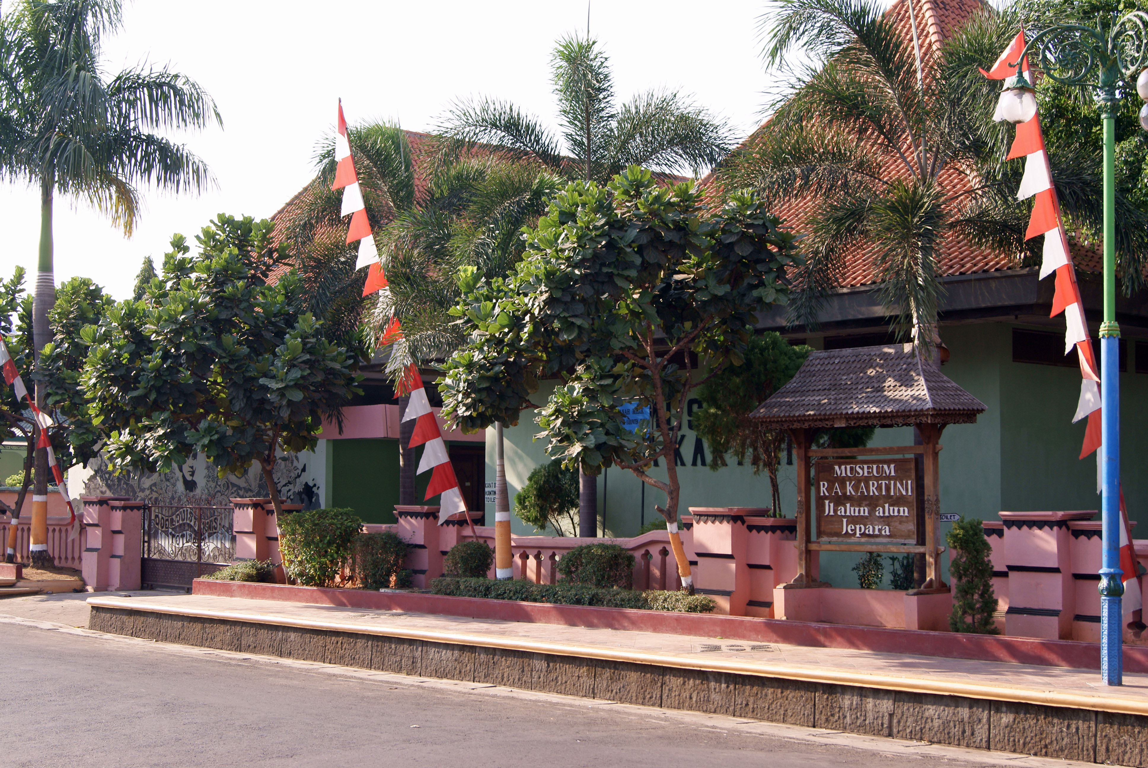 R.A. Kartini Museum, Jepara